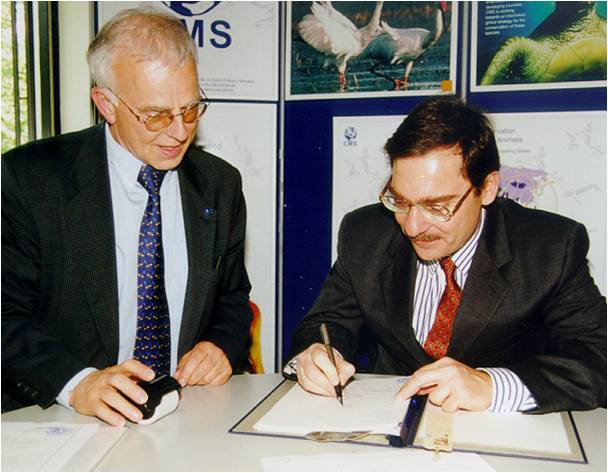 Signing of the Great Bustard MoU by Greece, 2001 (Leonidas Rokanas, Councel General of the Hellenic Republic Cologne)